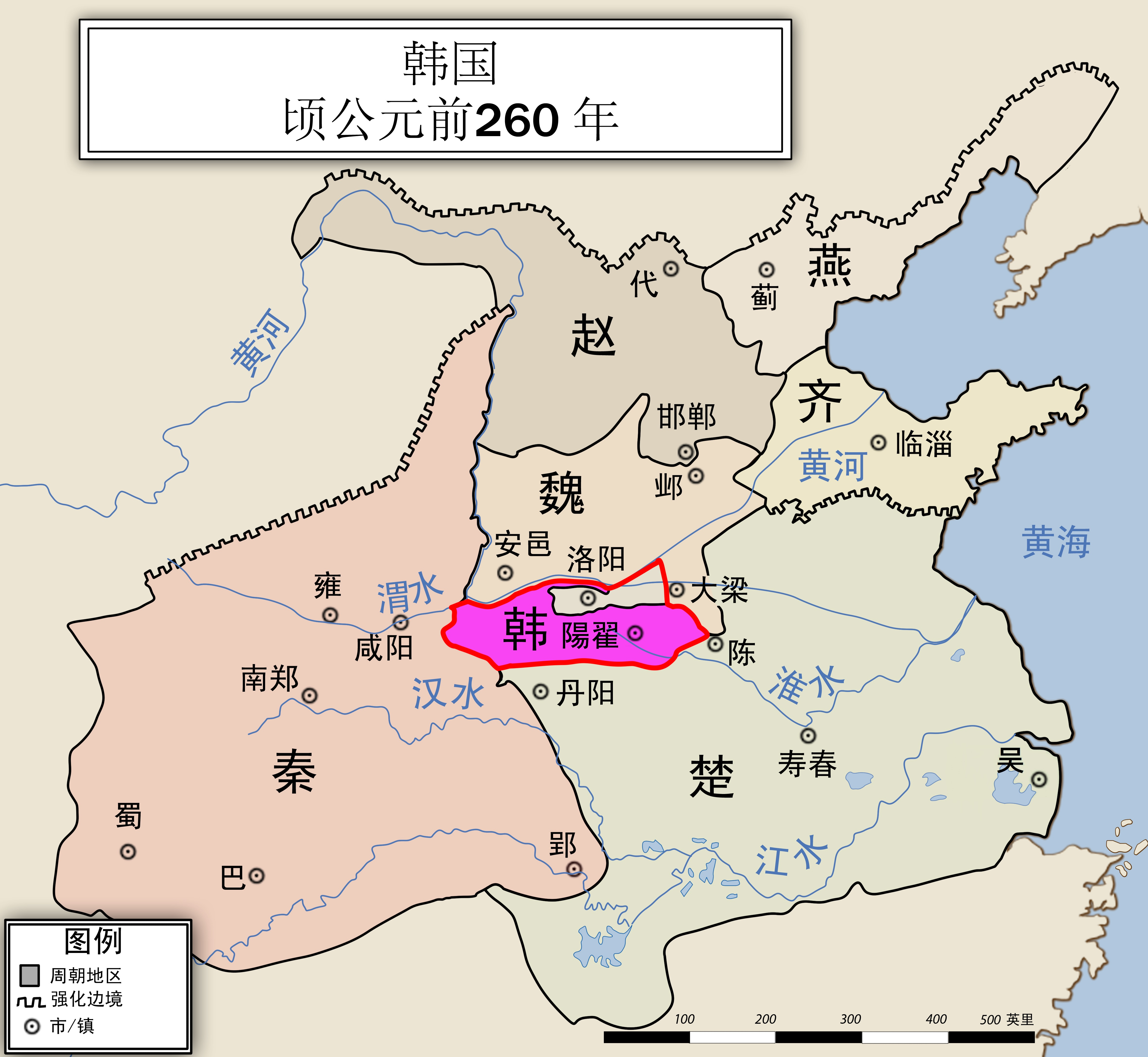 China Map Han State 260BCE